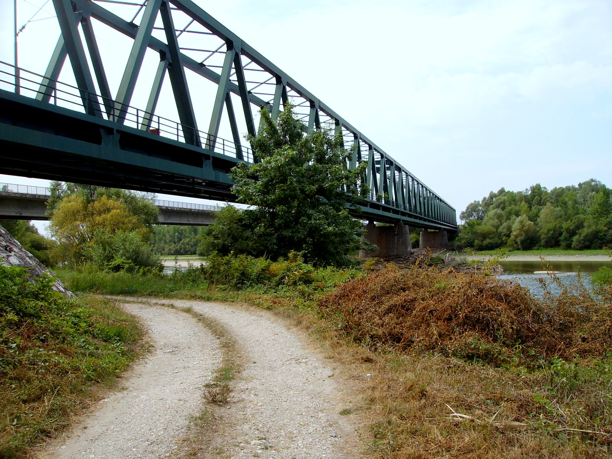 Bridges on River Drava; near Zákány, Border Croatia-Hungary.